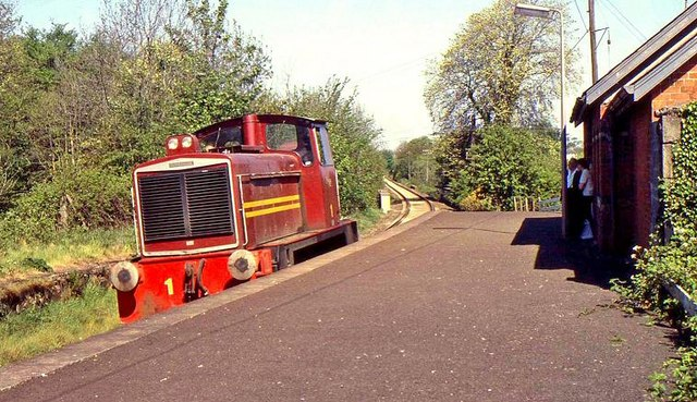 Glenavy railway station Original description: Glenavy station (1980) For the background to the Knockmore Jct – Antrim line see J2664 : Lisburn railway station (4). Glenavy was one of three intermediate stations re-opened in 1974. A passing light engine has surprised passengers awaiting the arrival of the 10.00 Ballymena – Lisburn.